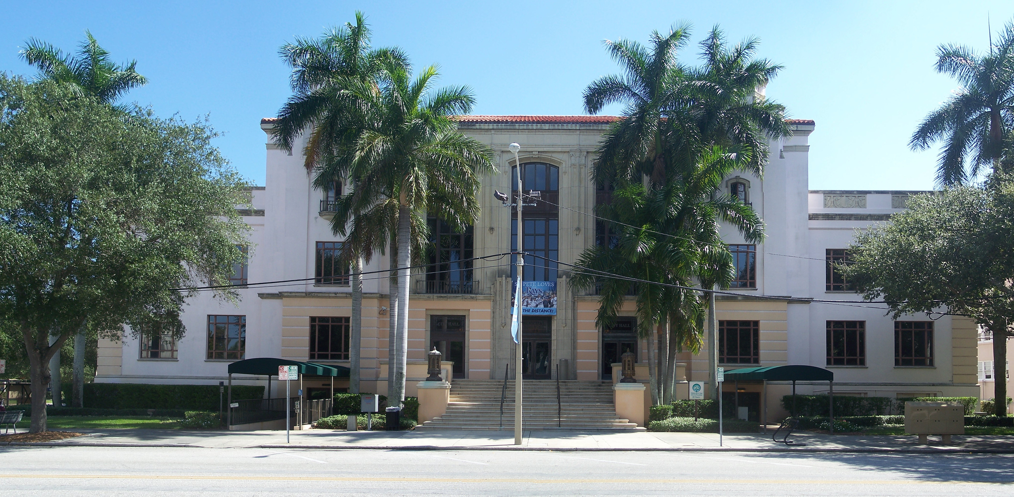 St. Petersburg, Florida: City hall